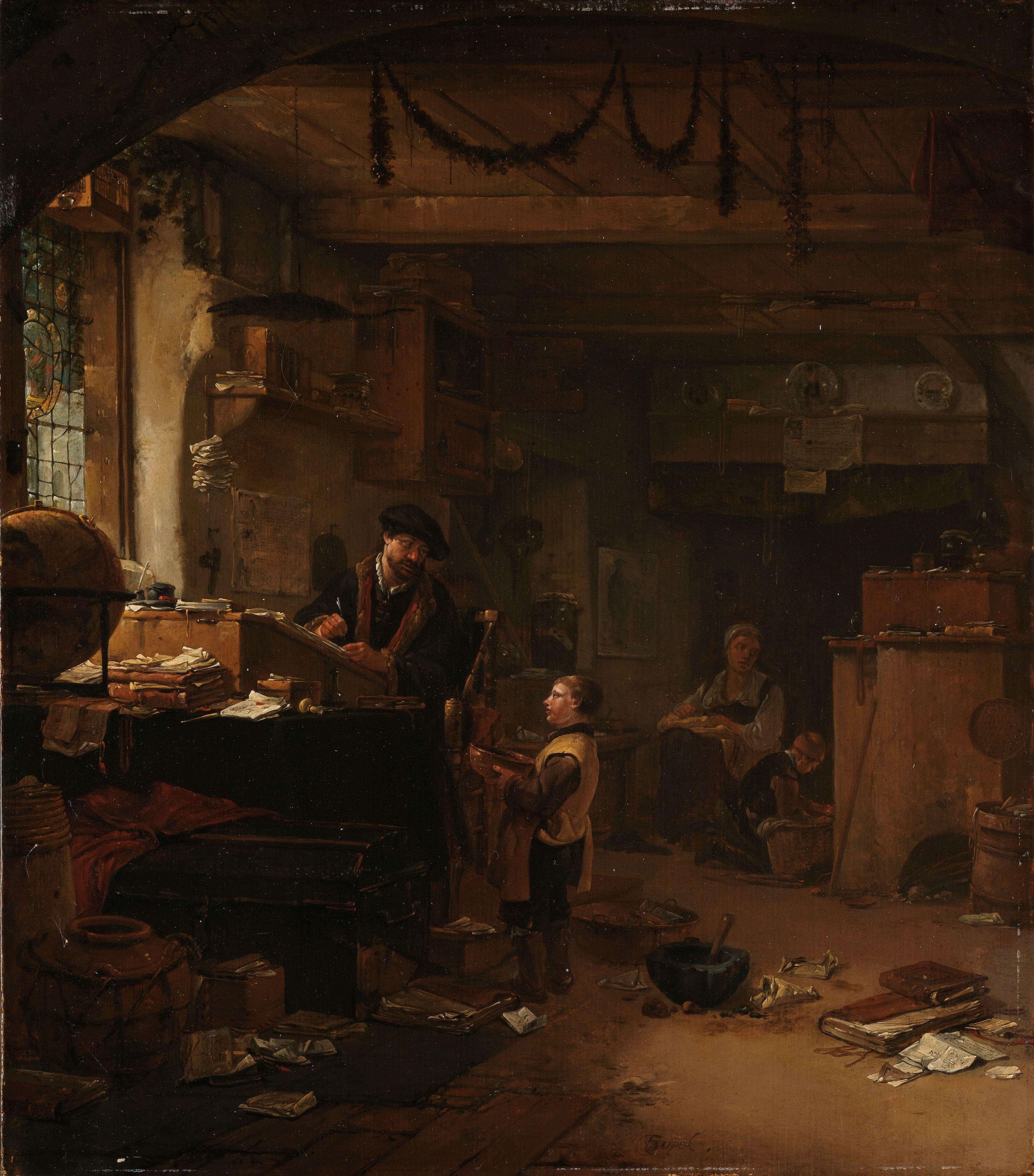 An alchemist is writing in his workshop, sitting behind a lectern. In front of him a boy is standing carrying a large bowl. On the table and on the floor are piles of books and papers, pots, kettles, a mortar and pestle and a globe. From the ceiling hangs a mounted crocodile. In the background a woman and child are sitting by a stove.